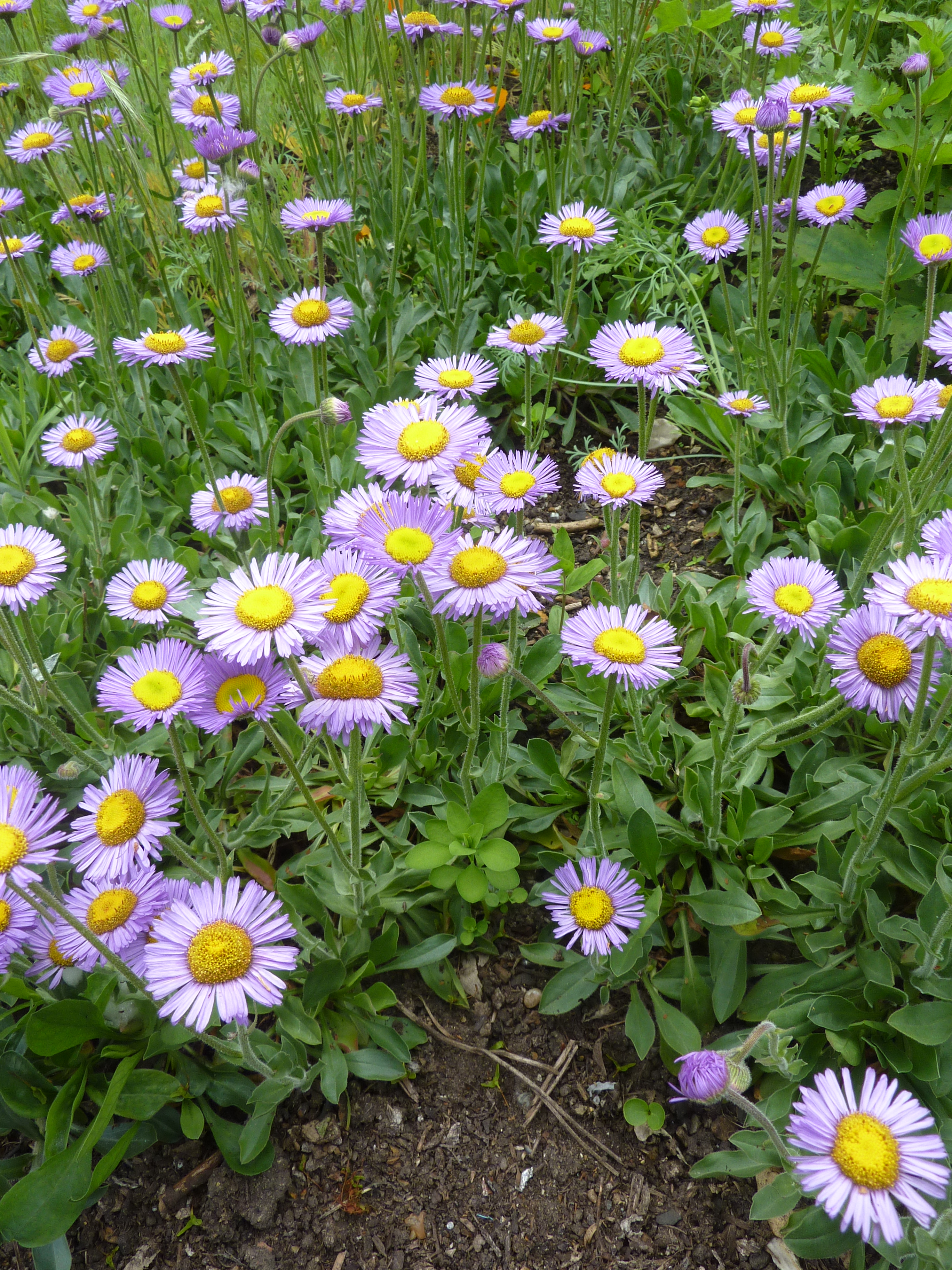 Taken in the Cambridge University Botanic Garden